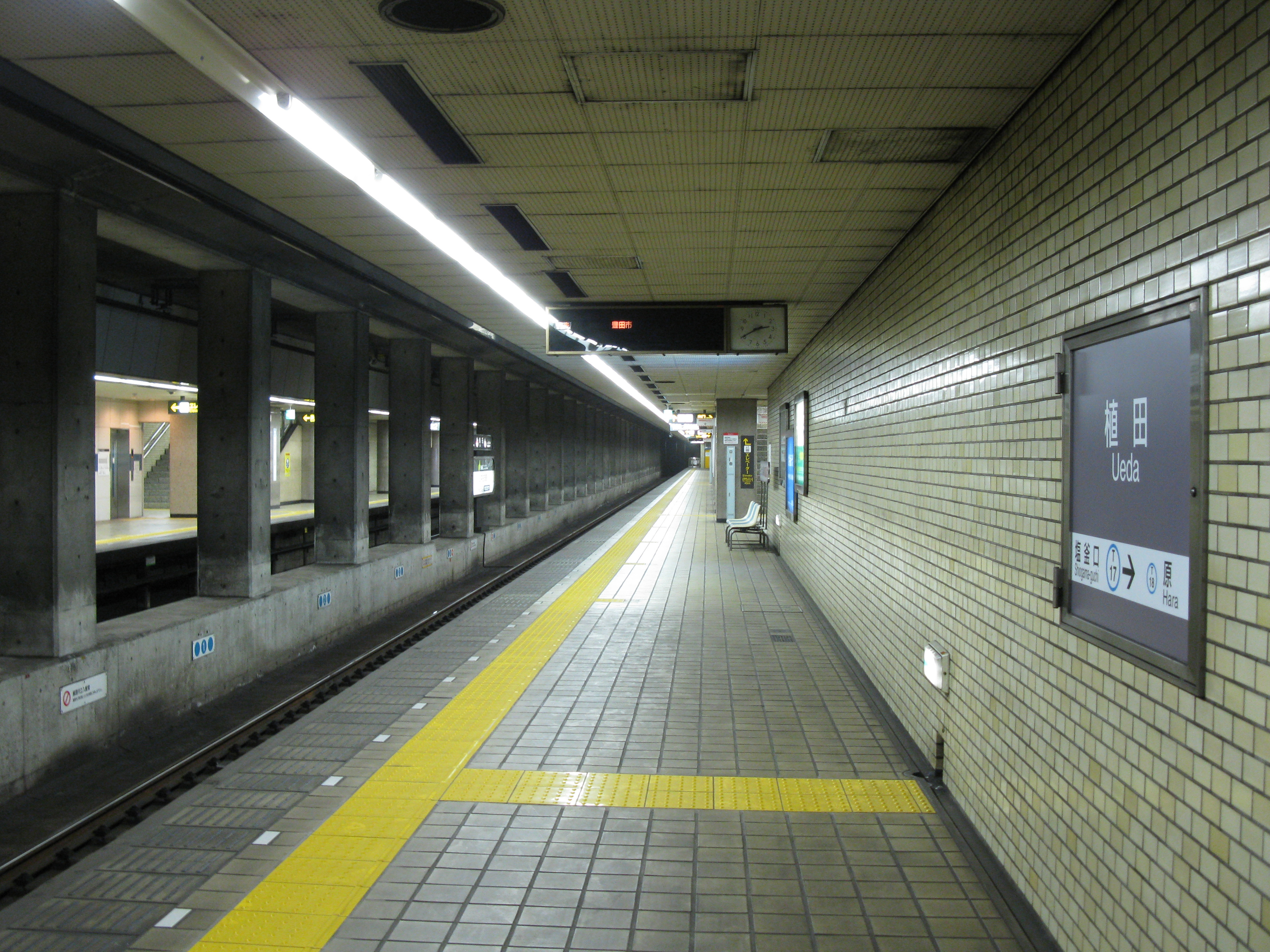 Ueda Station platform (Nagoya Municipal Subway Tsurumai Line)